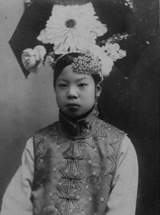 Wenxiu, a concubine of Emperor Puyi